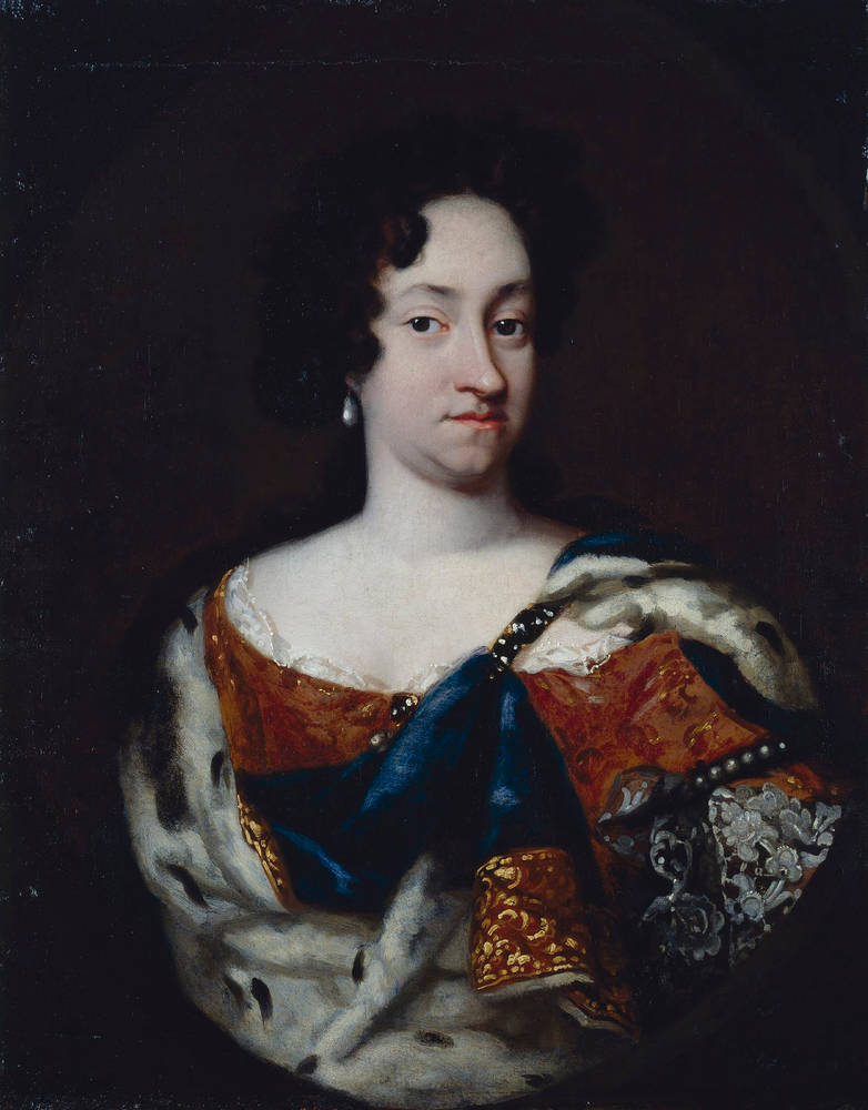 Depicted person: Anna Sophie of Denmark